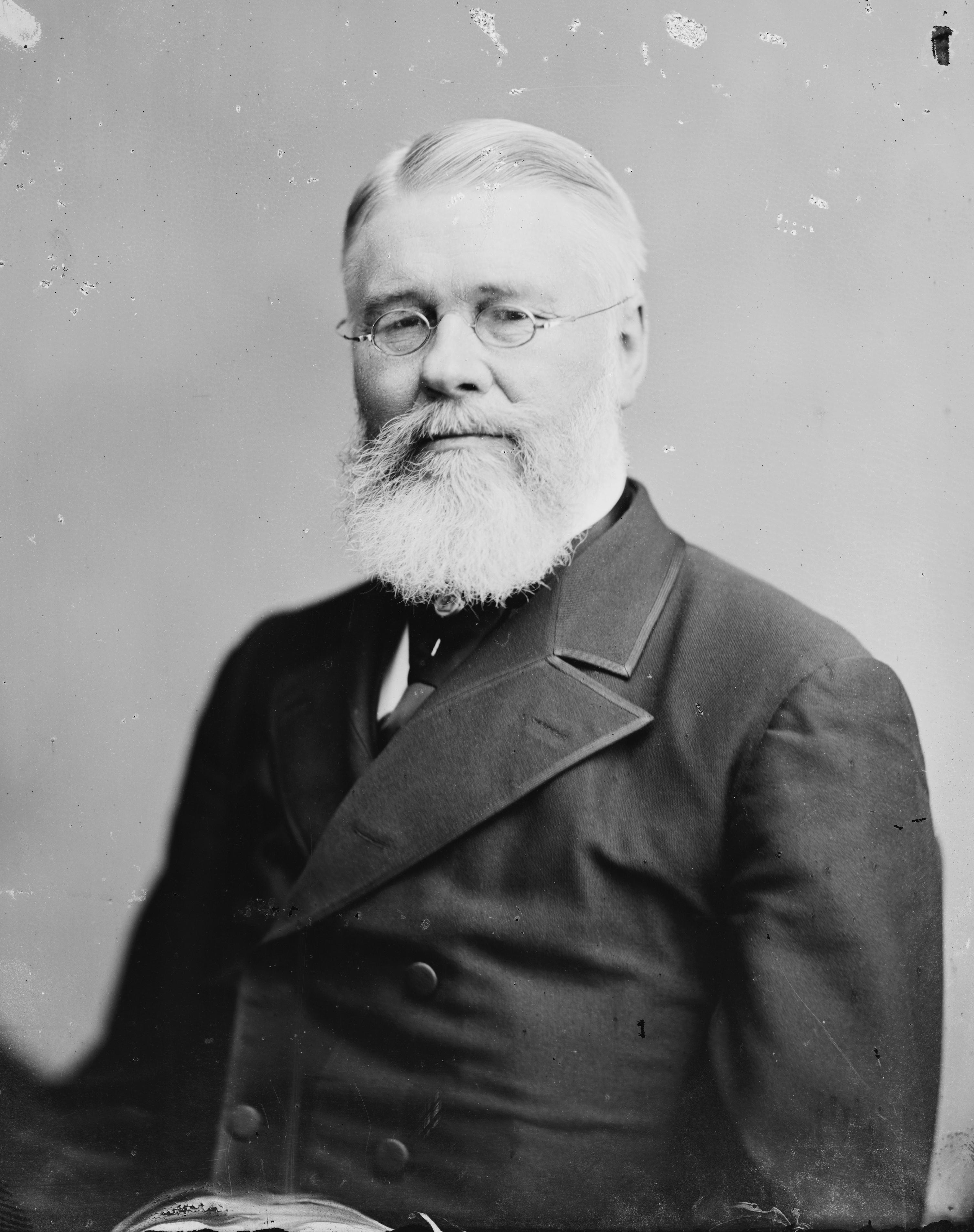 Richard Jordan Gatling. Library of Congress description: "Gatling, Prof. Richard Jordan"